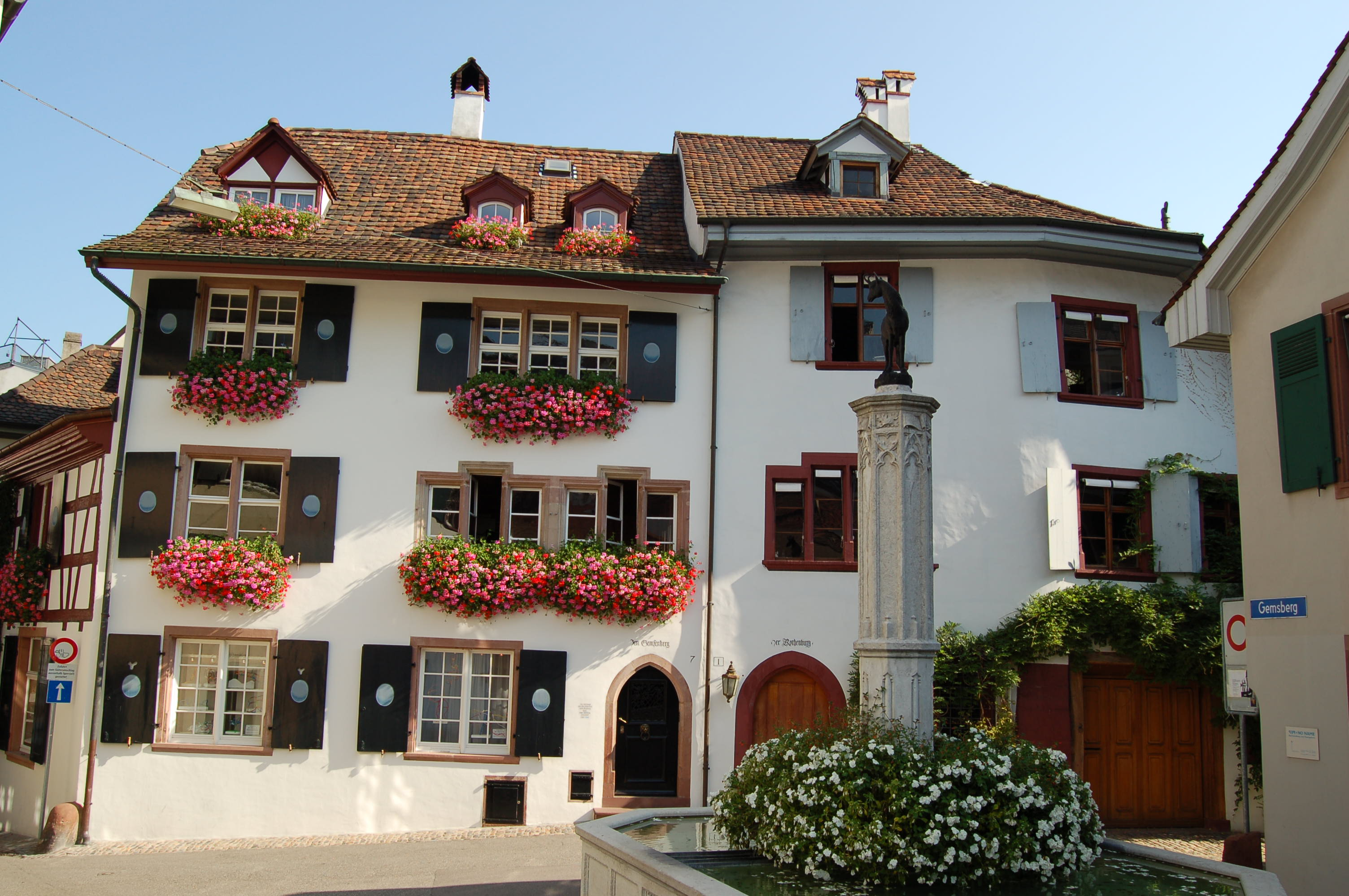 Basle, Switzerland Gemsberg